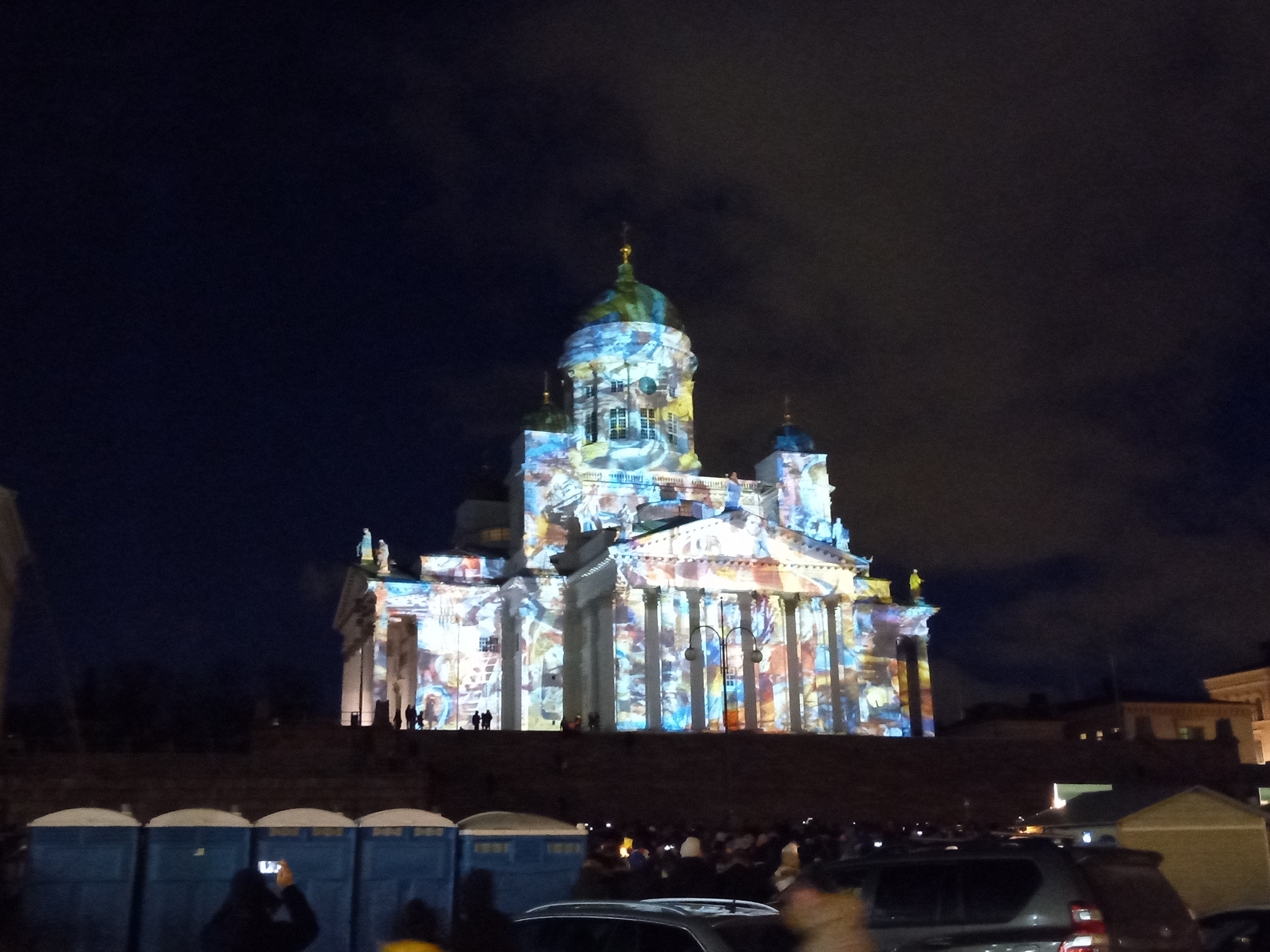 The light show onto Helsinki Cathedral in Lux Helsinki 2020.